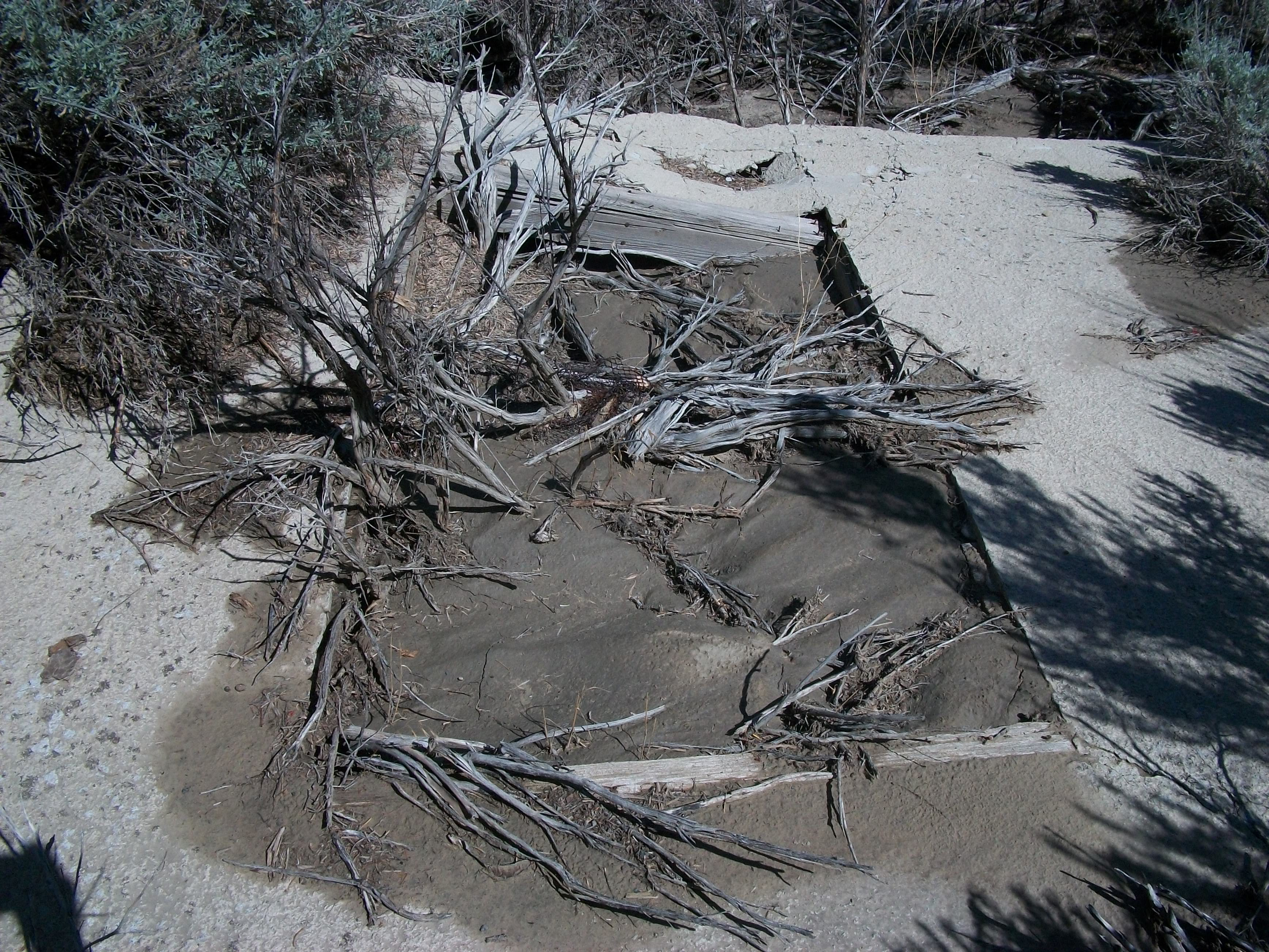 Filled-in mine entrance at Peerless, Utah.